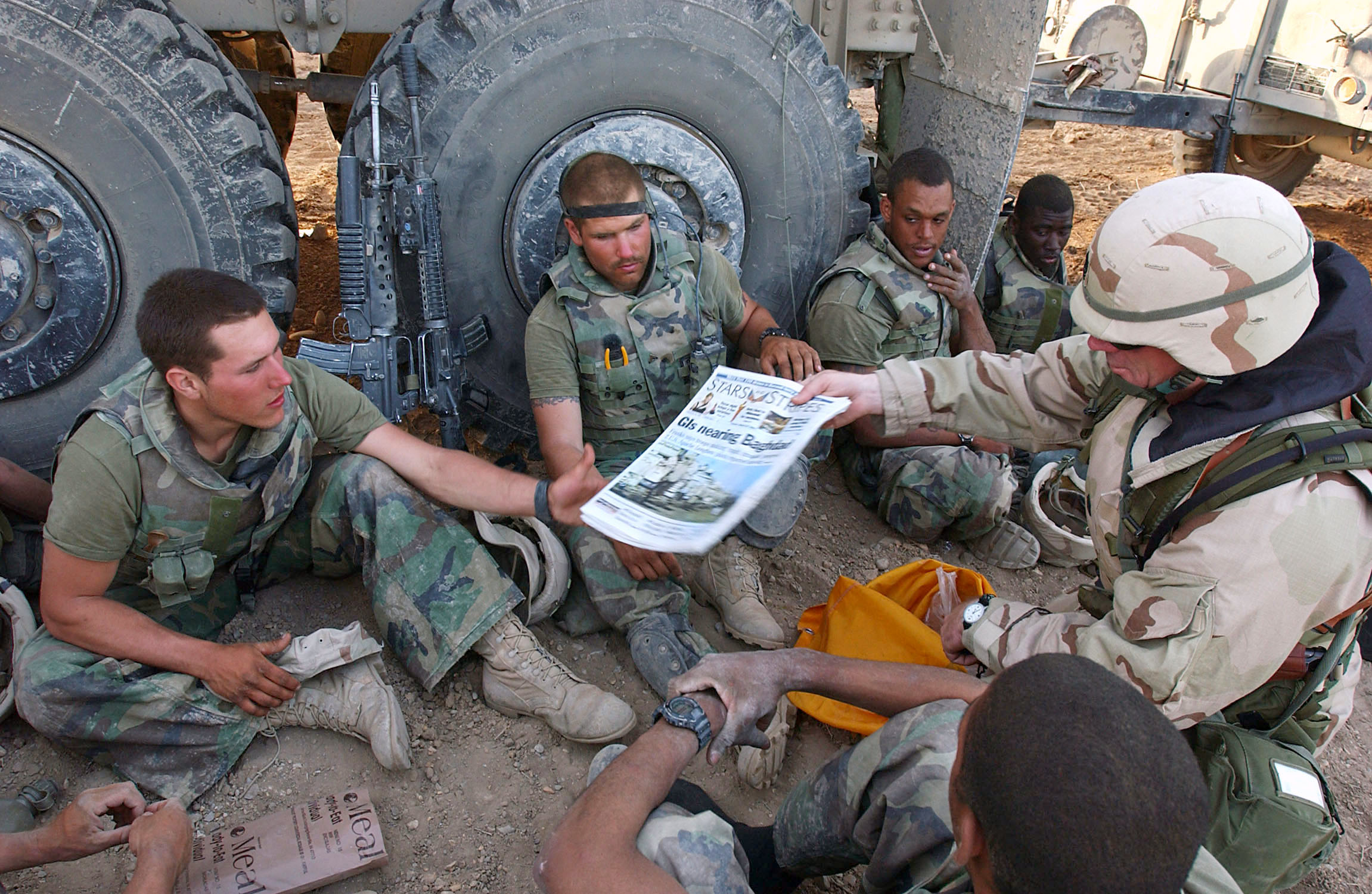 Central Command Area of Responsibility (Apr. 4, 2003) -- Command sergeant Major John Sparks delivers copies of Stars and Stripes to U.S. marines from 2nd Platoon, 3-2 India Company. The marines are part of Task Force Tarawa, deployed in support of operation Iraqi Freedom.